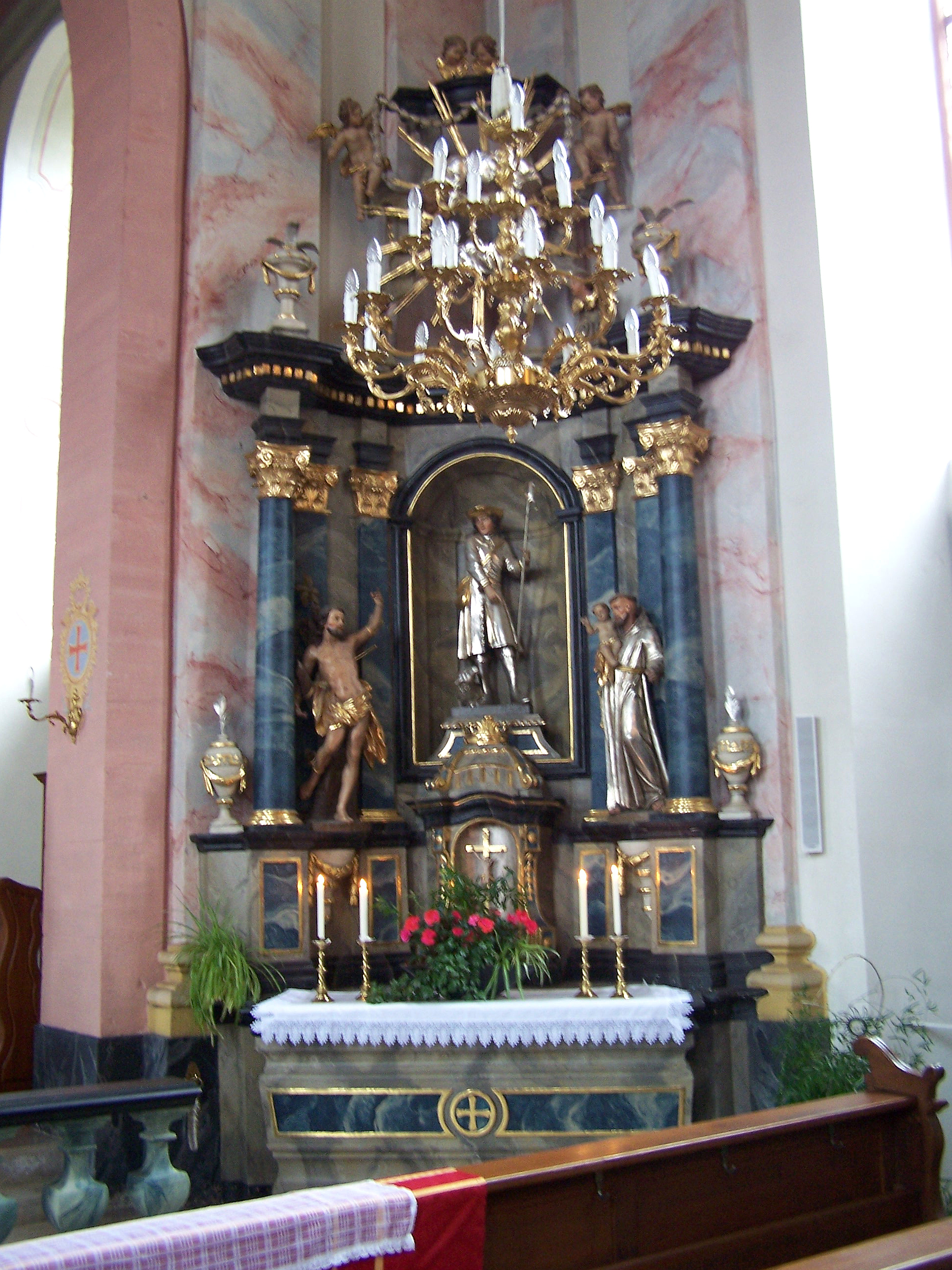 Altar of St. Wendelin of Trier in the baroque catholic church St. John the Baptist in Mönchberg, July 2012